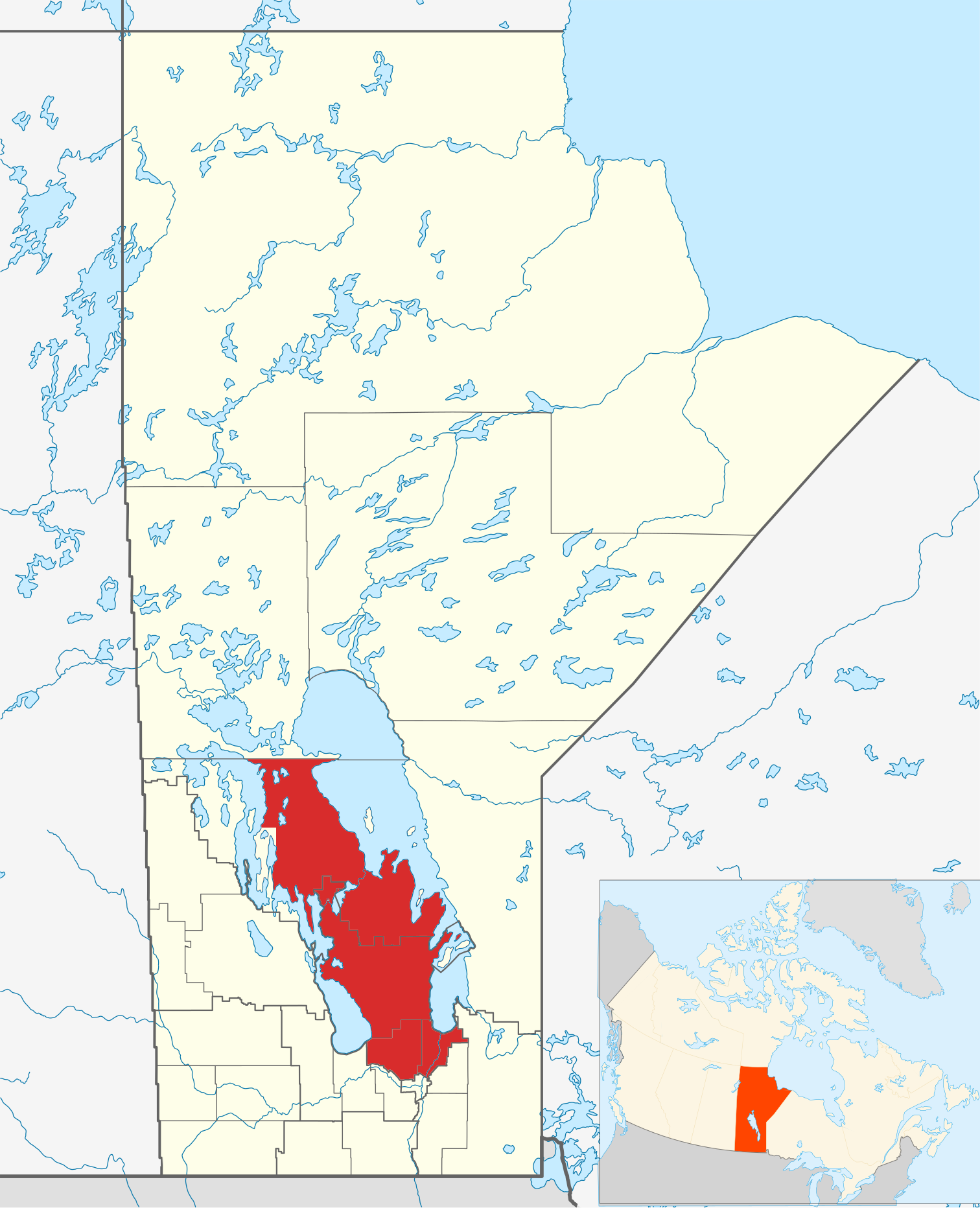 Location of Interlake Region in Manitoba, Canada.